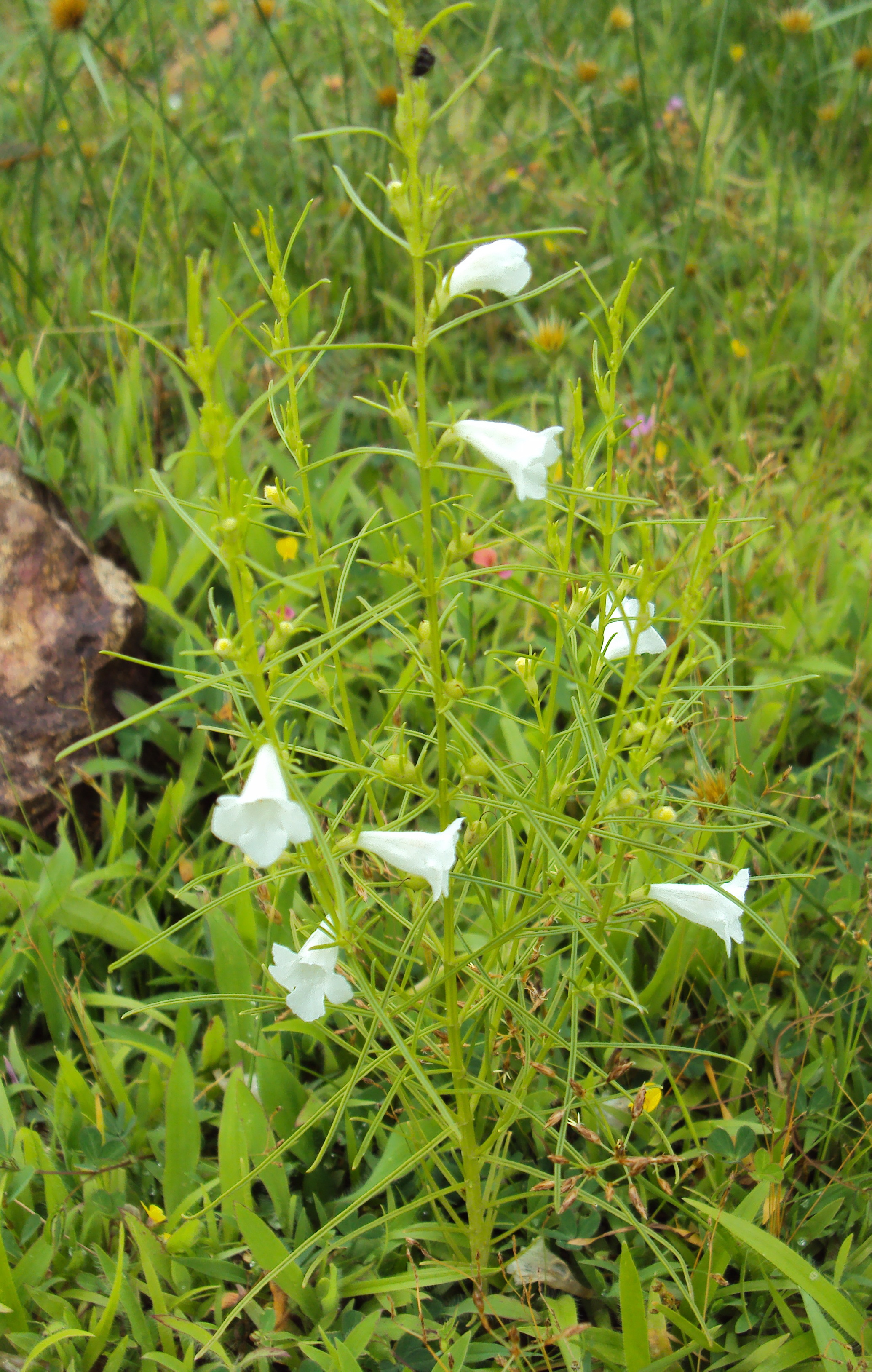 Sopubia delphinifolia